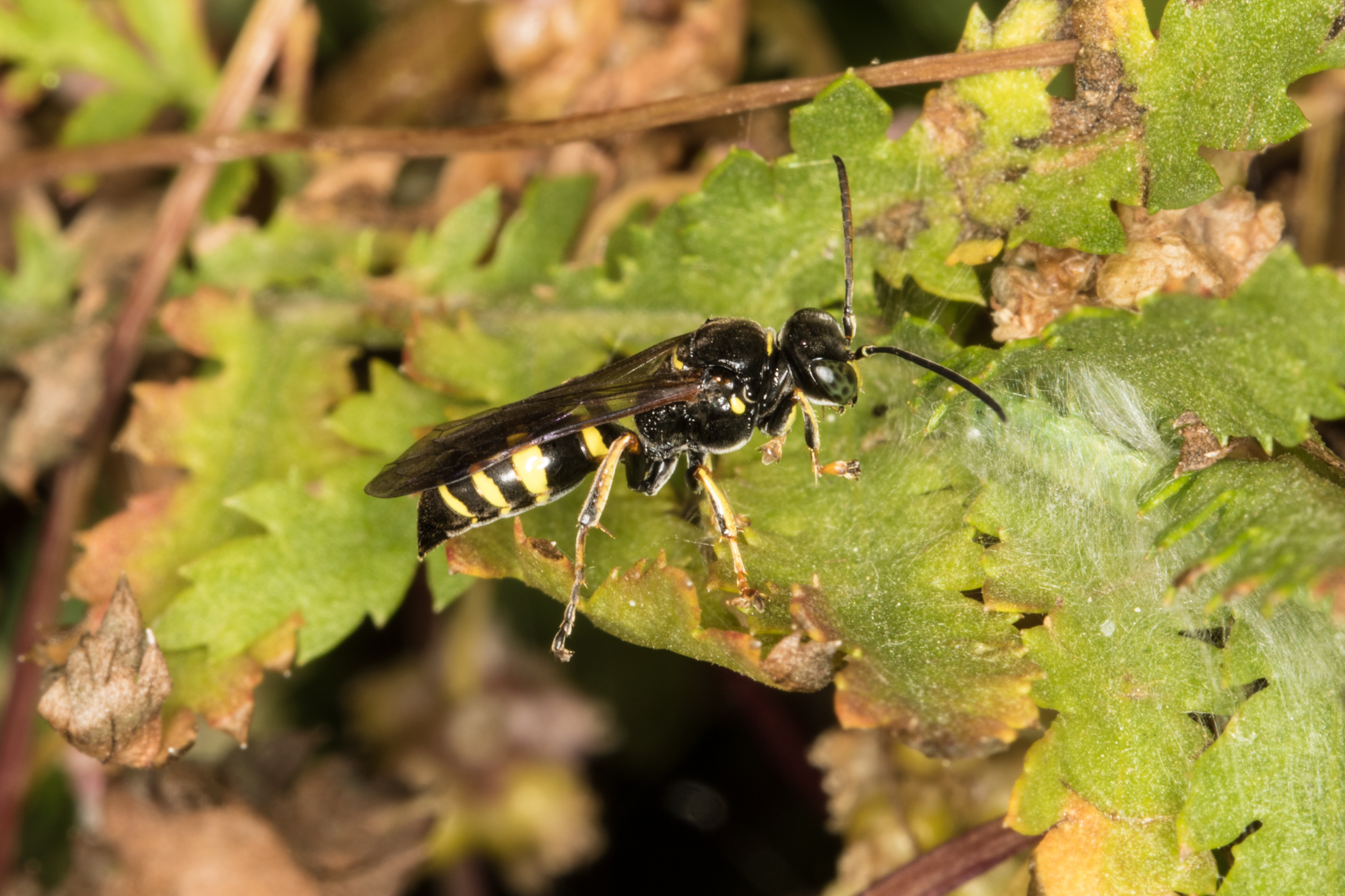 Gorytes laticinctus (Lepeletier, 1832), hunting Auchenorhyncha, Utterslev Mose, Søborg, Denmark, 25 July 2015